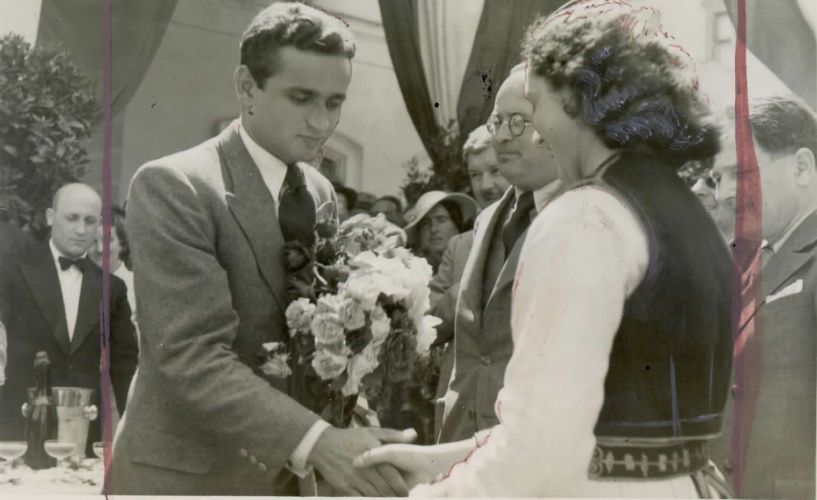 Franjo Punčec (1913-1985), top-level Croatian tennis player, born in Čakovec, who played for Independent State of Croatia and Yugoslavia